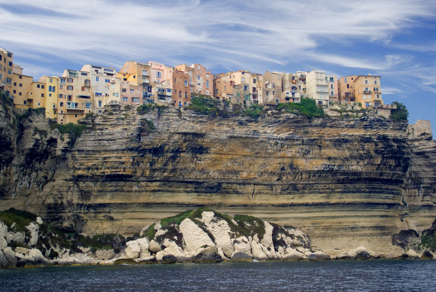 The clifftop town of Bonifacio in Corsica